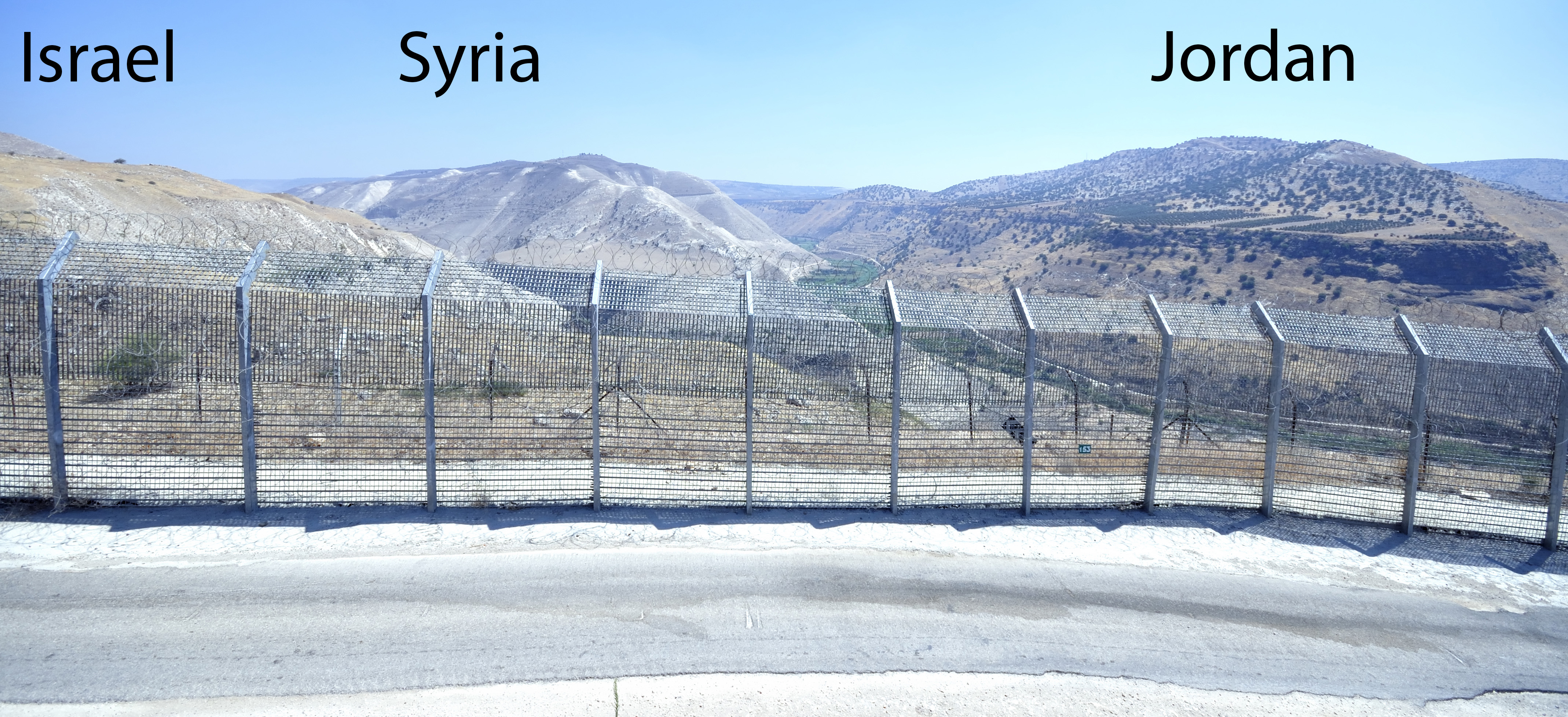 In this picture you can see the meeting of the borders of 3 countries:Israel, Syria and Jordan. Israel has built a fence as part of its fortifications against the Syrian Army. The borders meet at the slopes of each mountain.